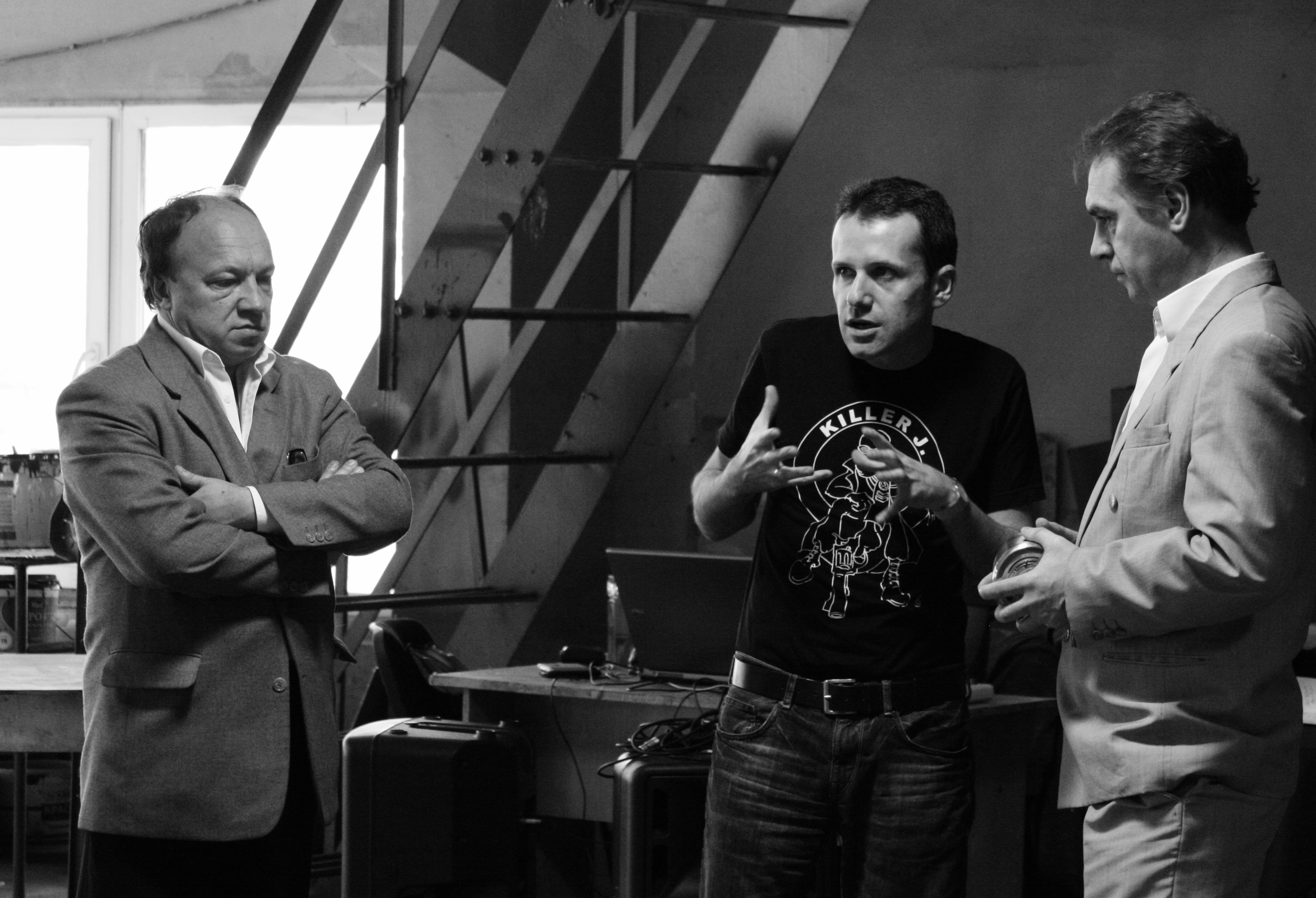 Rehearsal of "freak" in the Saratov Drama Theater. Left to right: Actor Vladimir Nazarov, director Yavor Gyrdev actor Igor Bagoley